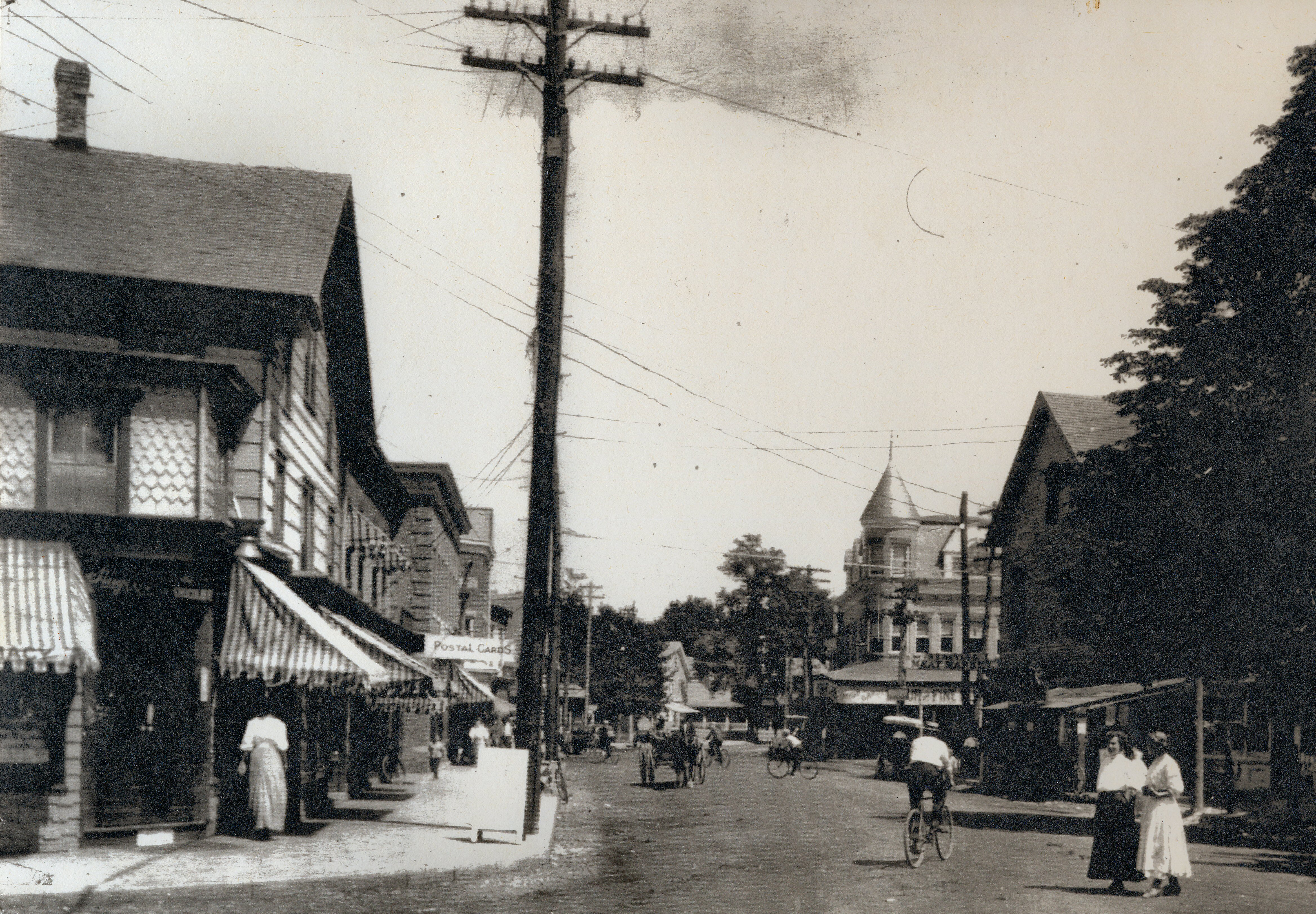 Digital duplicate of historic photograph showing South Street and East Main Street in Oyster Bay. Snouder's Drug Store on left, Moore's Building in right background, and Fleet's Hall in right foreground are shown.